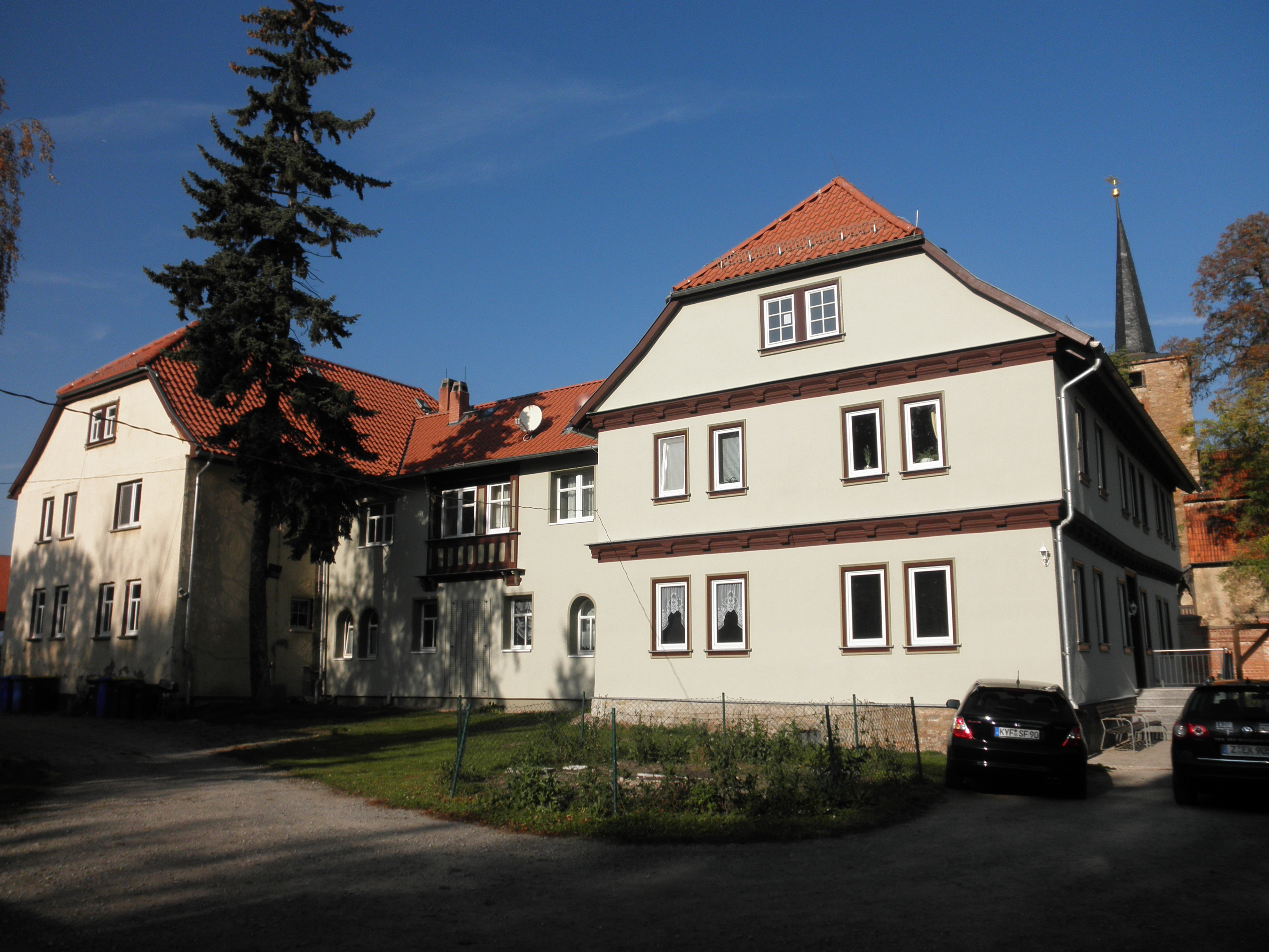 Manor House in Niedertopfstedt in Thuringia